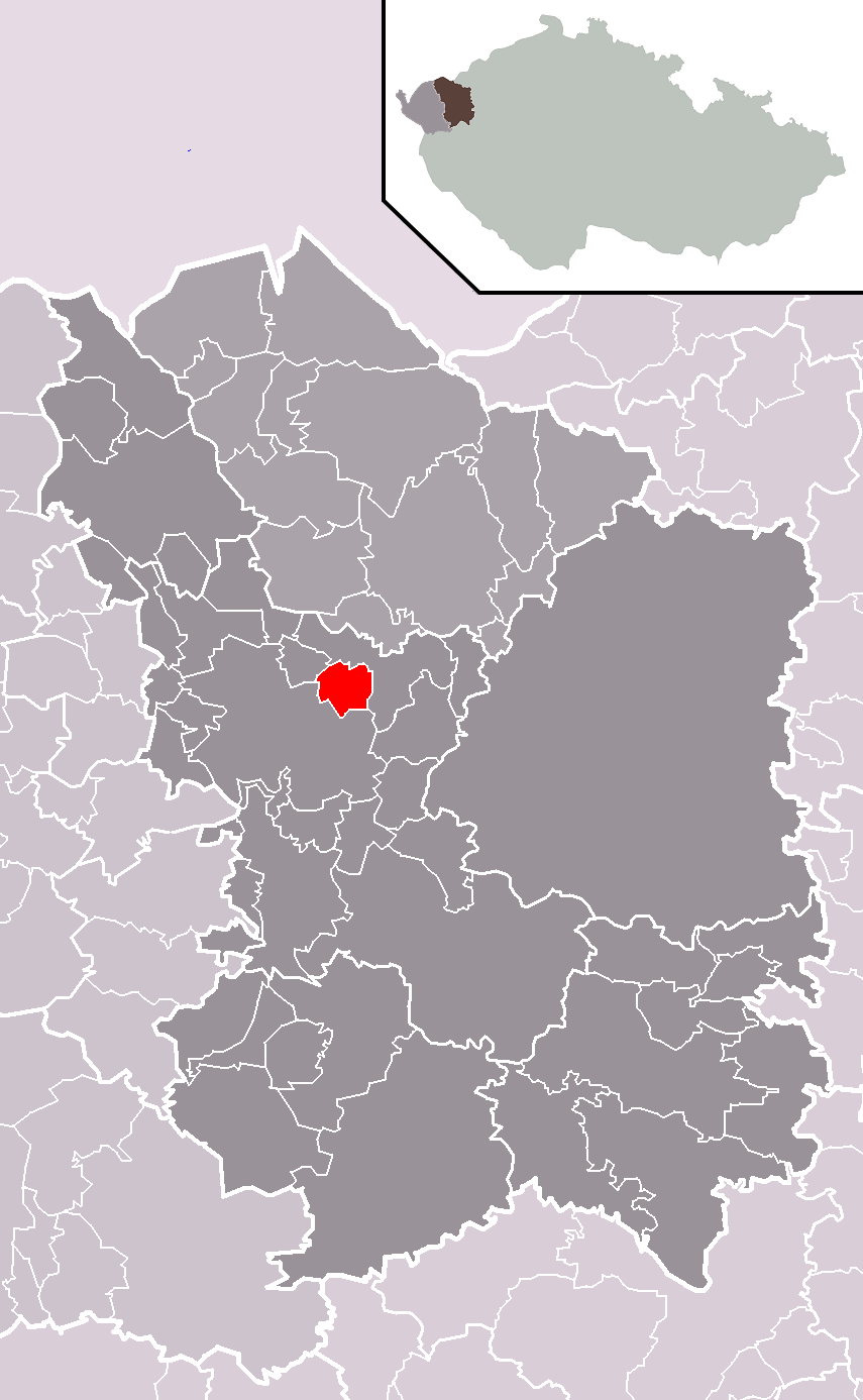 Location of Dalovice municipality within Karlovy Vary District and administrative area of Karlovy Vary as a Municipality with Extended Competence.